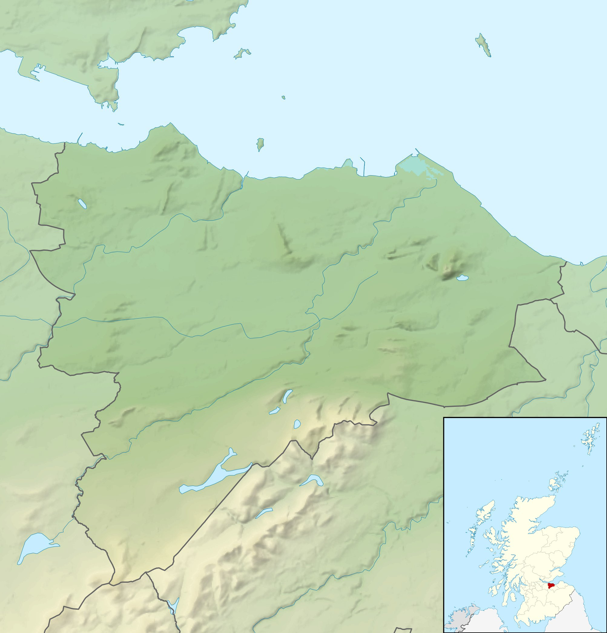 Relief map of Edinburgh, UK. Equirectangular map projection on WGS 84 datum, with N/S stretched 175% Geographic limits: West: 3.47W East: 3.05W North: 56.05N South: 55.80N